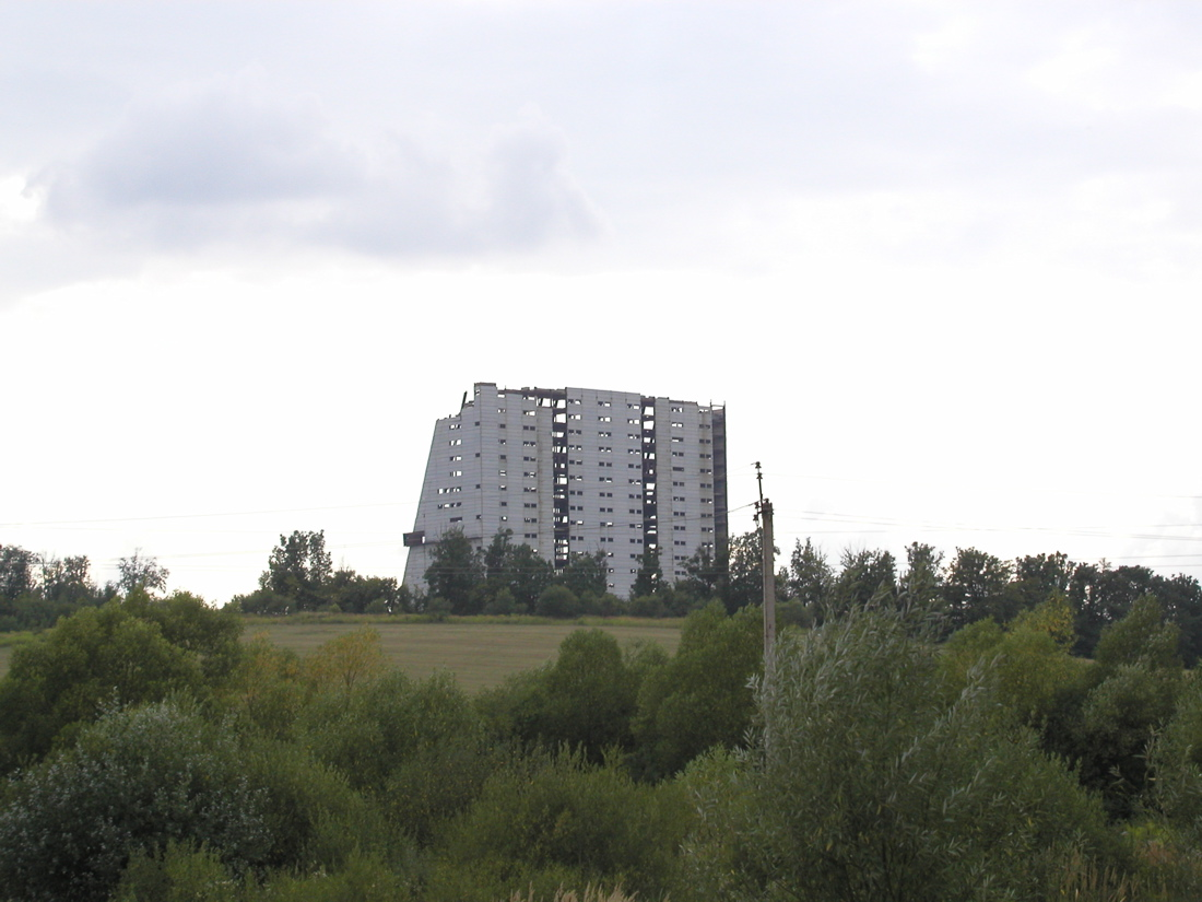 Receiver of the Daryal-UM type LPAR near Mukacheve (Pistryalove, Transcarpathian Region, Ukraine)